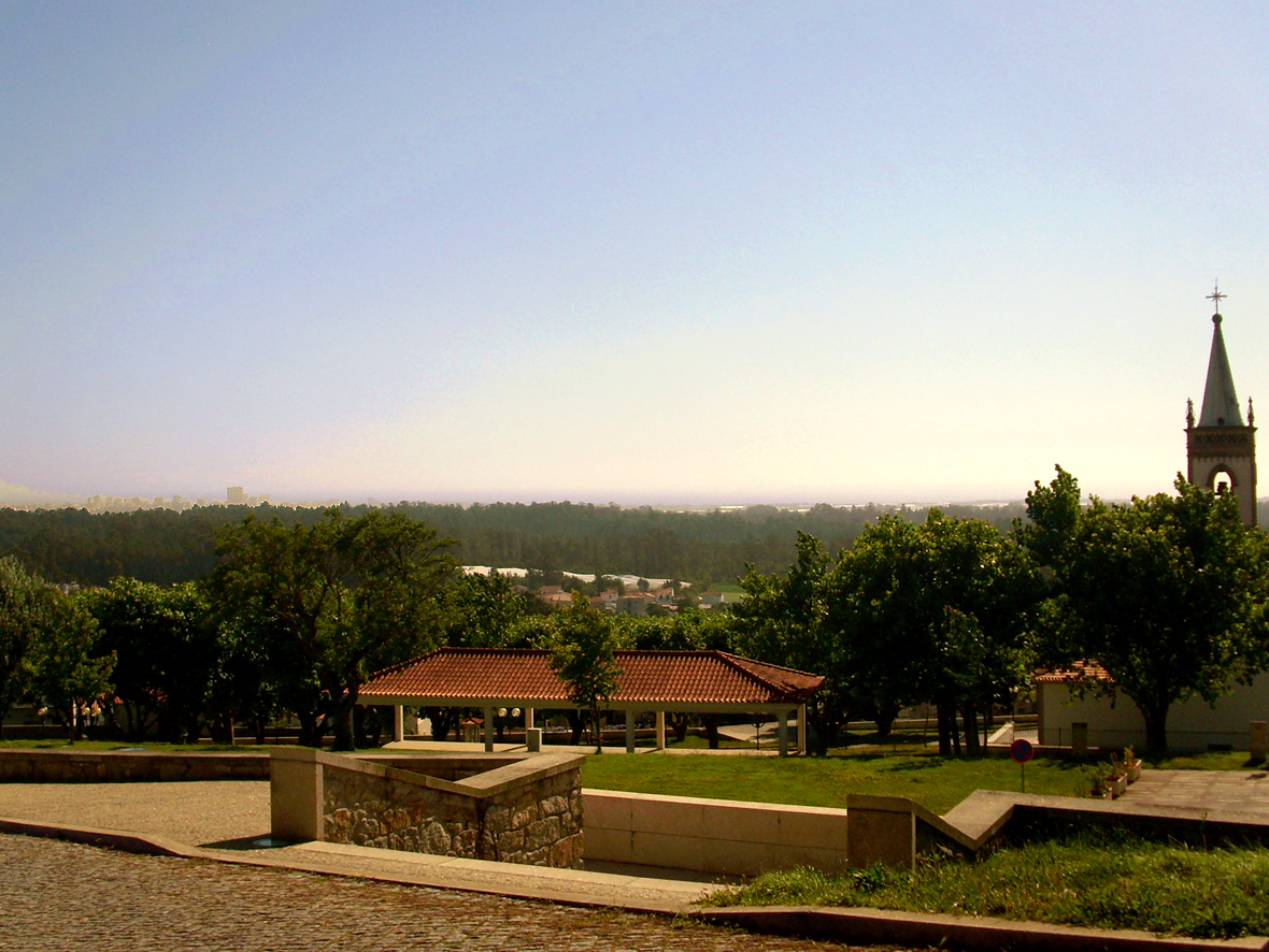 City of Póvoa de Varzim, as seen 7km away from the São Félix foothill. The city and its suburban villages are surrounded by a green belt.